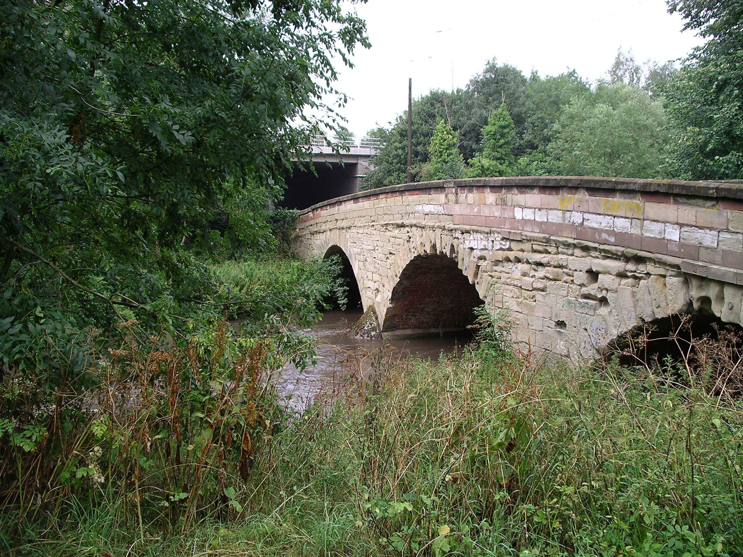 Photo taken by in late July 2006 of the River Sowe at the bridge near the Mill, Baginton, Warwickshire. The grey concrete of the new bridge for the A46 is seen in the background. The photo taken sortly after a rain storm which swelled the river considerably.